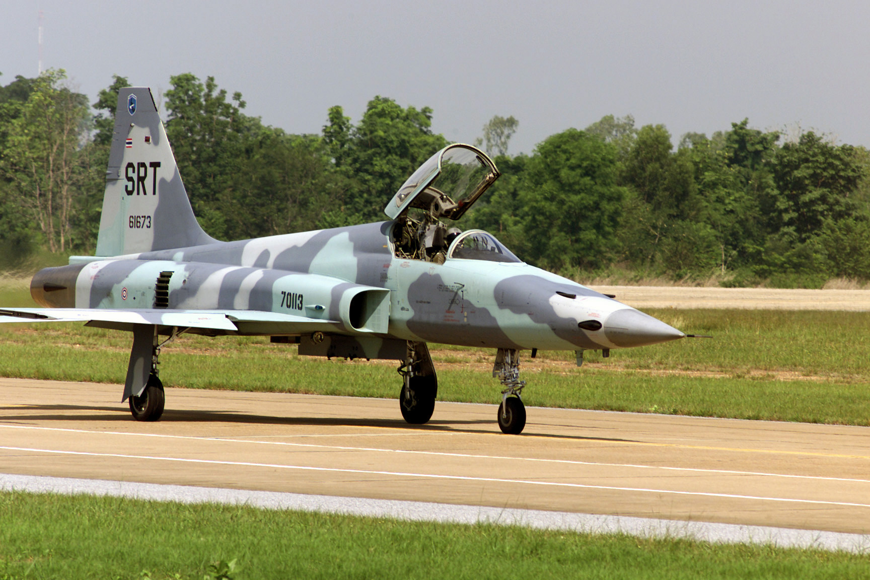 A Royal Thai Air Force Northrop F-5E Tiger II (USAF s/n 76-1673) taxies on the flight line at Korat Royal Thai Air Force Base during exercise "Cobra Gold 2000" on 9 May 2000.